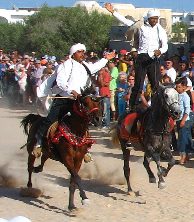 Fantasia in Midoun, Djerba (Tunisia).